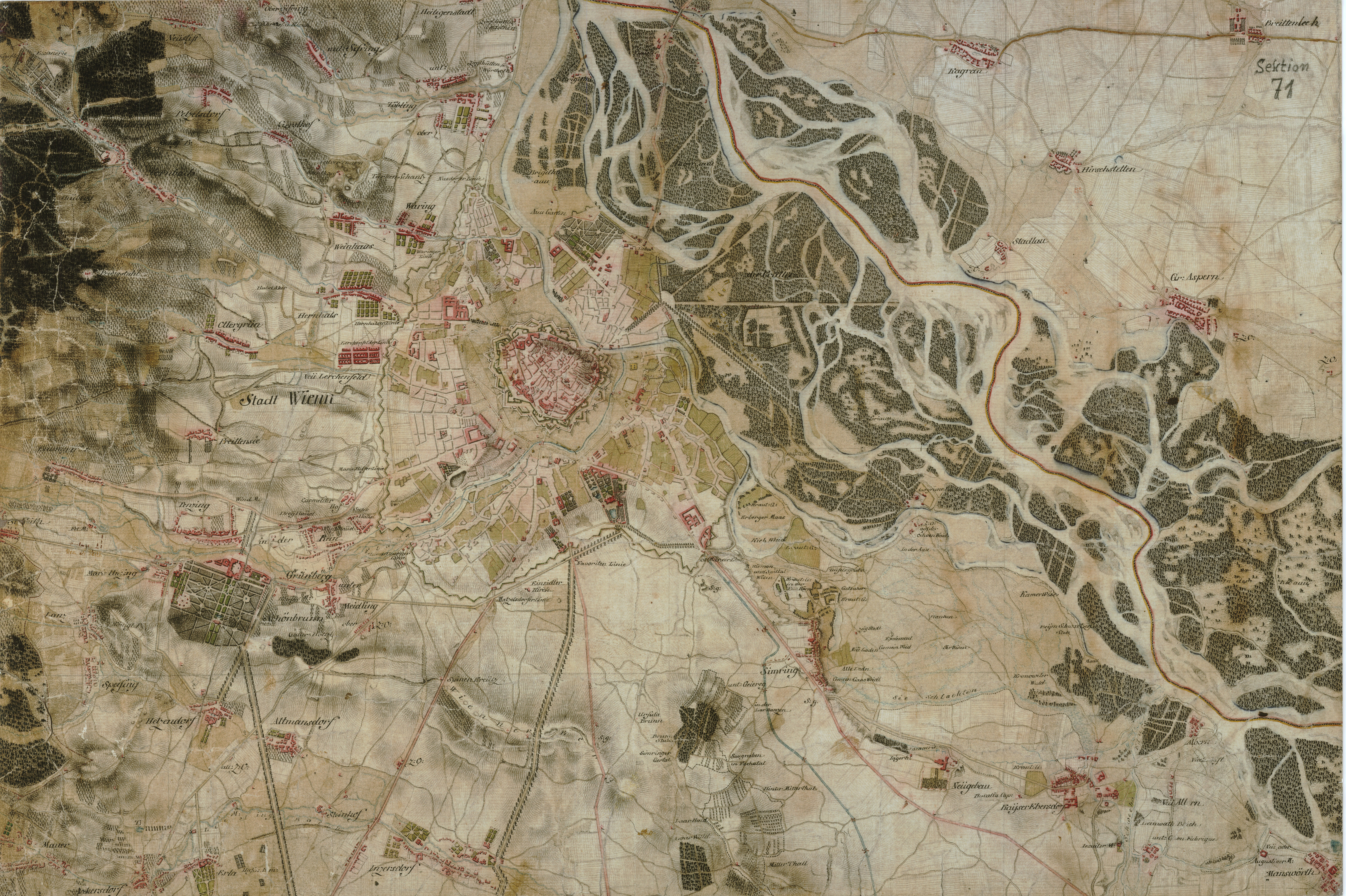 Historical map Josephinische Landesaufnahme 1764-1787 of Vienna (Wien) / Austria (Österreich) / European Union (Europäische Union) and surroundings, Lower Austria